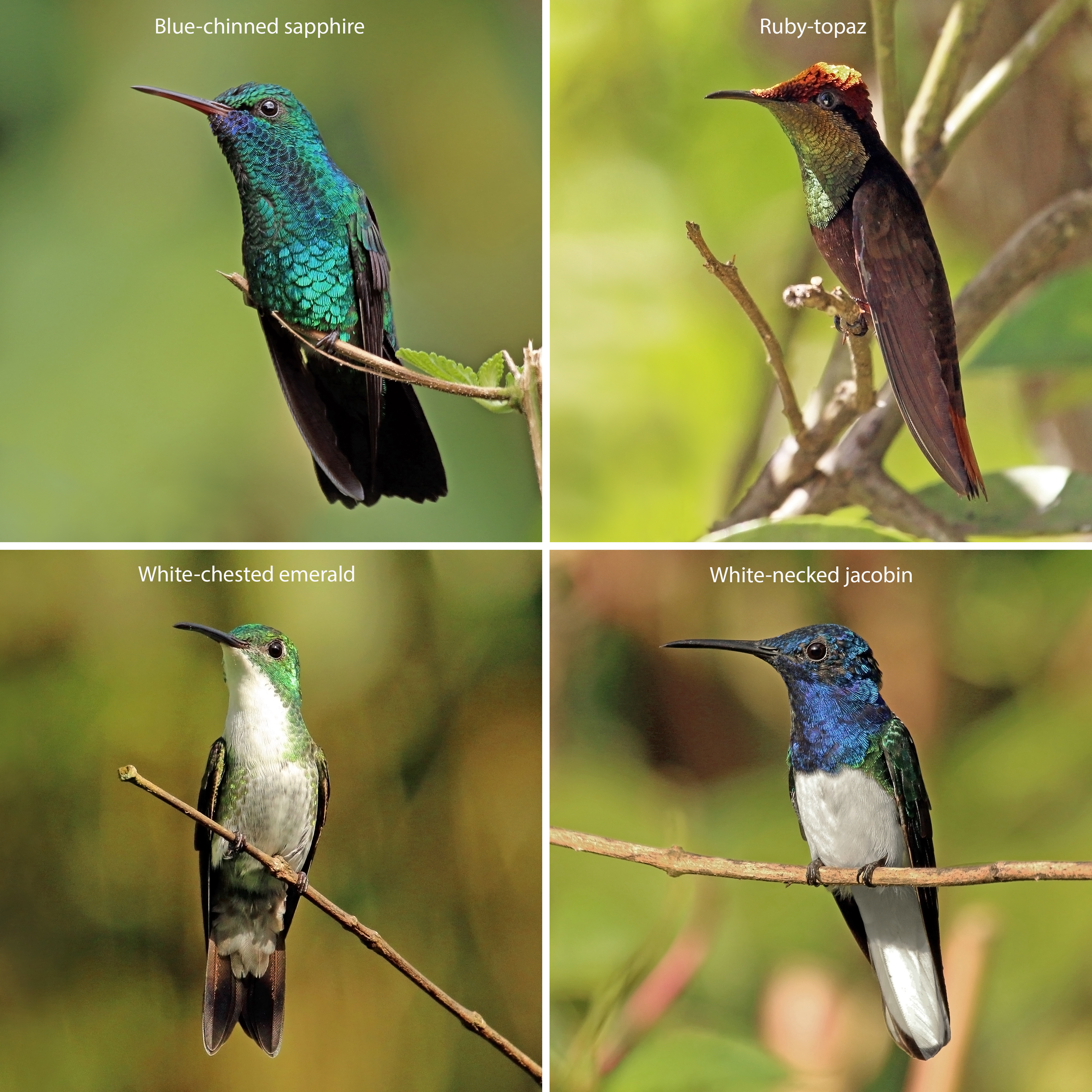 Trinidad and Tobago hummingbirds. Composite of birds from Trinidad and Tobago Blue-chinned sapphire (Chlorestes notata notata) male, Trindad Ruby-topaz hummingbird (Chrysolampis mosquitus) male, Tobago White-chested emerald (Amazilia brevirostris), Trinidad White-necked jacobin (Florisuga mellivora mellivora) male Trinidad